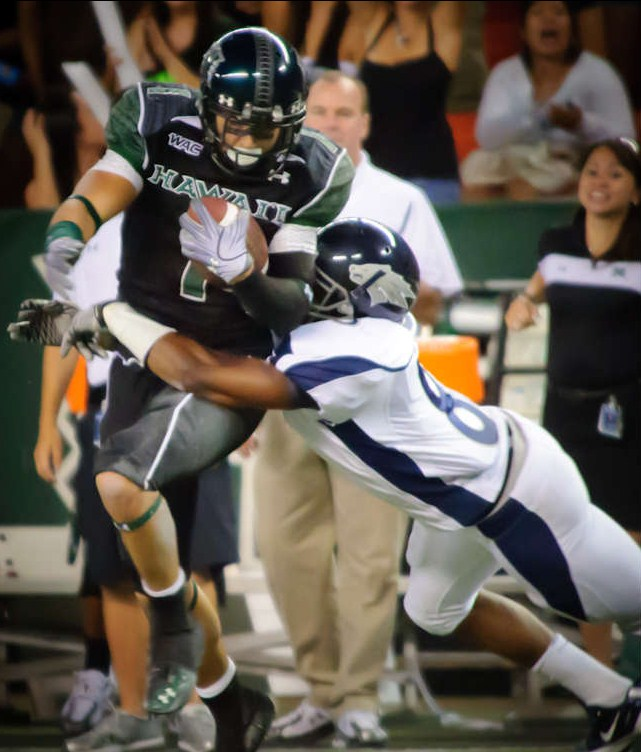 Greg Salas carrying the ball while being tackled by a Nevada player